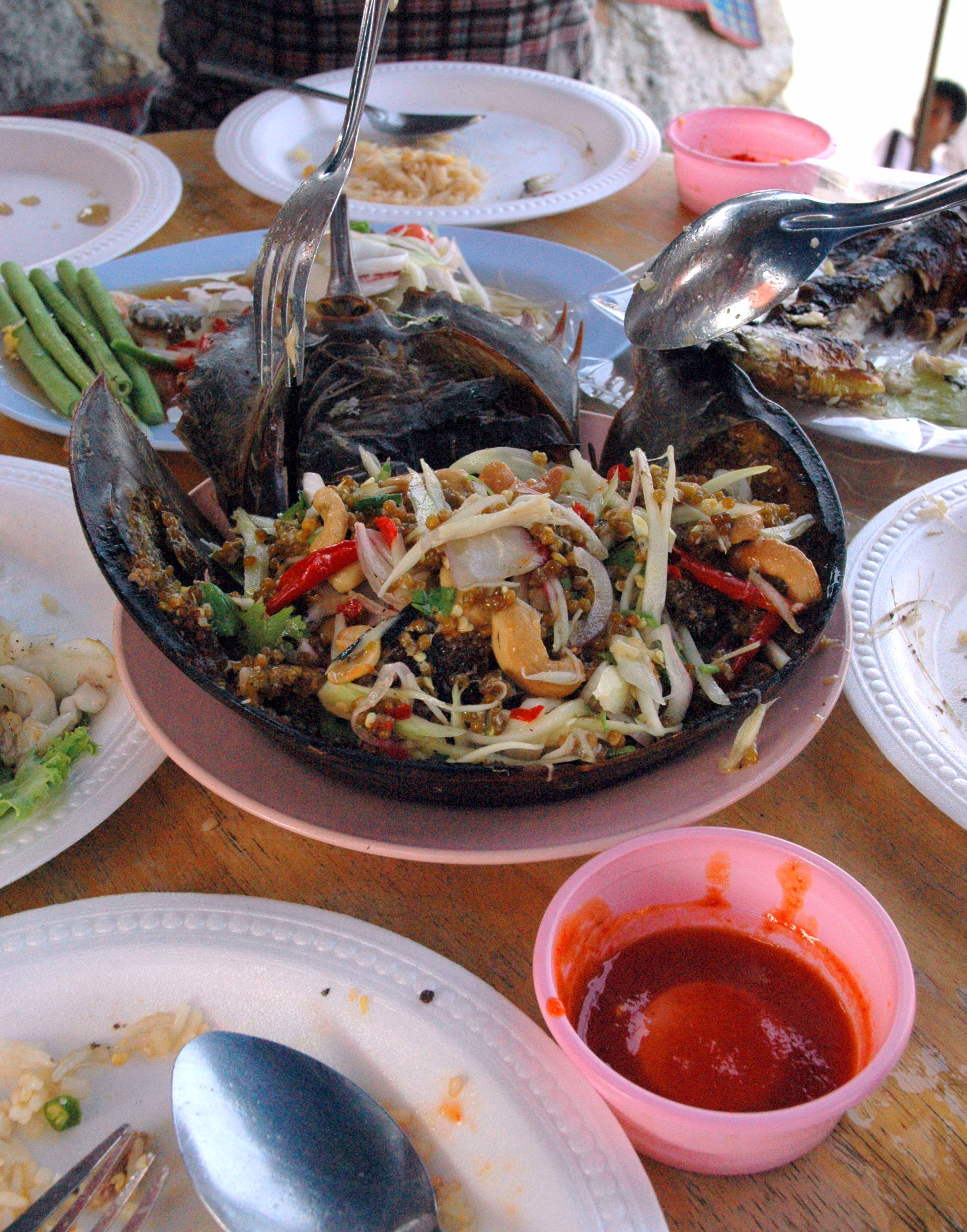 Horseshoe crab, prepared and then put back into its shell in Si Racha, Thailand. The roe were cooked inside the shell, and you could scrape chunks of roasted roe off the inside of the shell with your fork or spoon. The red sauce in the lower right hand corner is the holiest of holies - Nam Prik Si Racha - Si Racha sauce in Si Racha. That was like a food milestone for me.